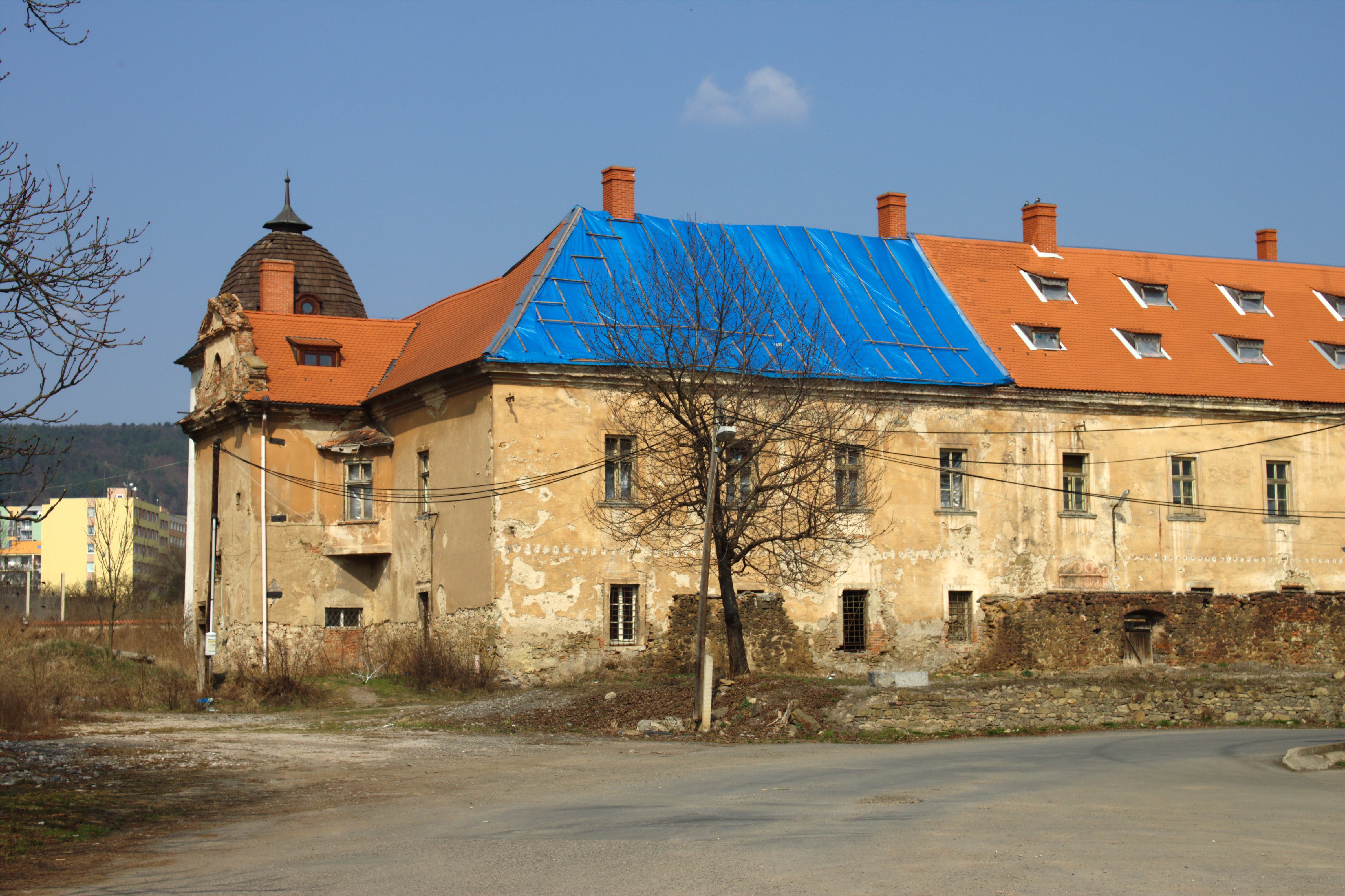 Exterior view of the Králův Dvůr Chateau, Central Bohemian Region, CZ